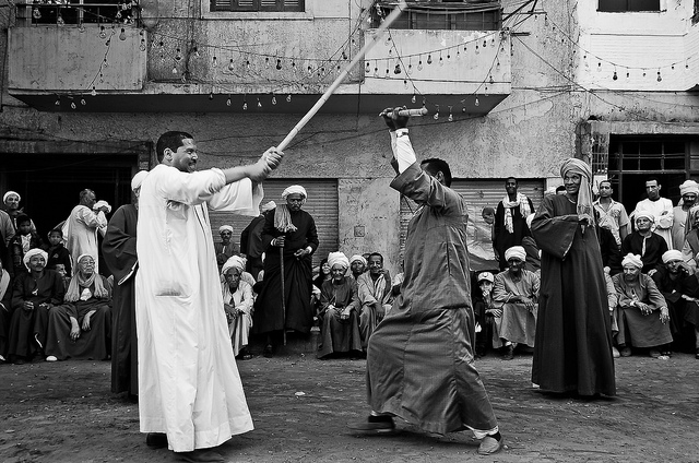 Tahtib